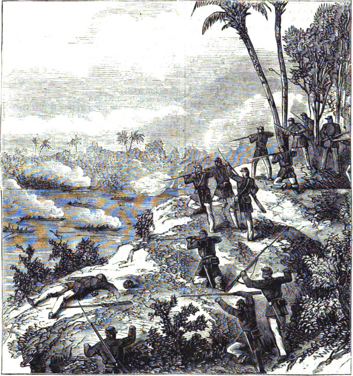 War in Parguay: Engagement at Chaco